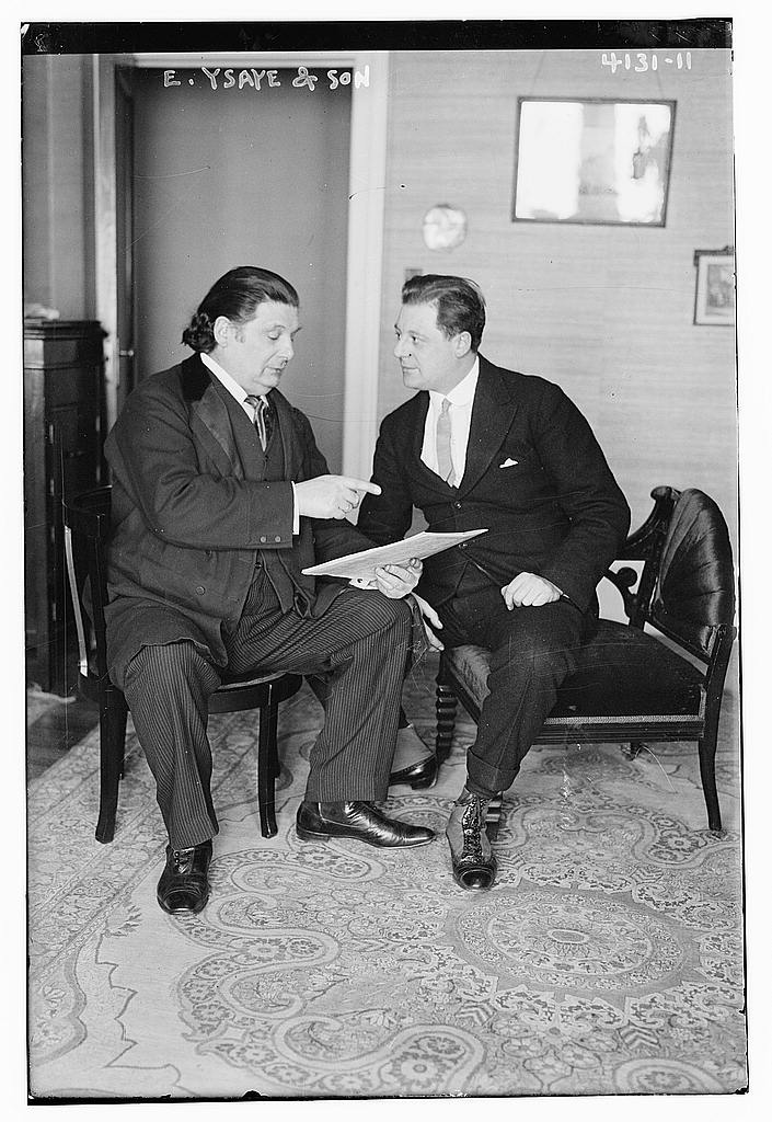 Bain News Service,, publisher. E. Ysaye & son [between ca. 1915 and ca. 1920] 1 negative : glass ; 5 x 7 in. or smaller. Notes: Title from unverified data provided by the Bain News Service on the negatives or caption cards. Forms part of: George Grantham Bain Collection (Library of Congress). Format: Glass negatives. Repository: Library of Congress, Prints and Photographs Division, Washington, D.C. 20540 USA, General information about the Bain Collection is available at Higher resolution image is available (Persistent URL): Call Number: LC-B2- 4131-11